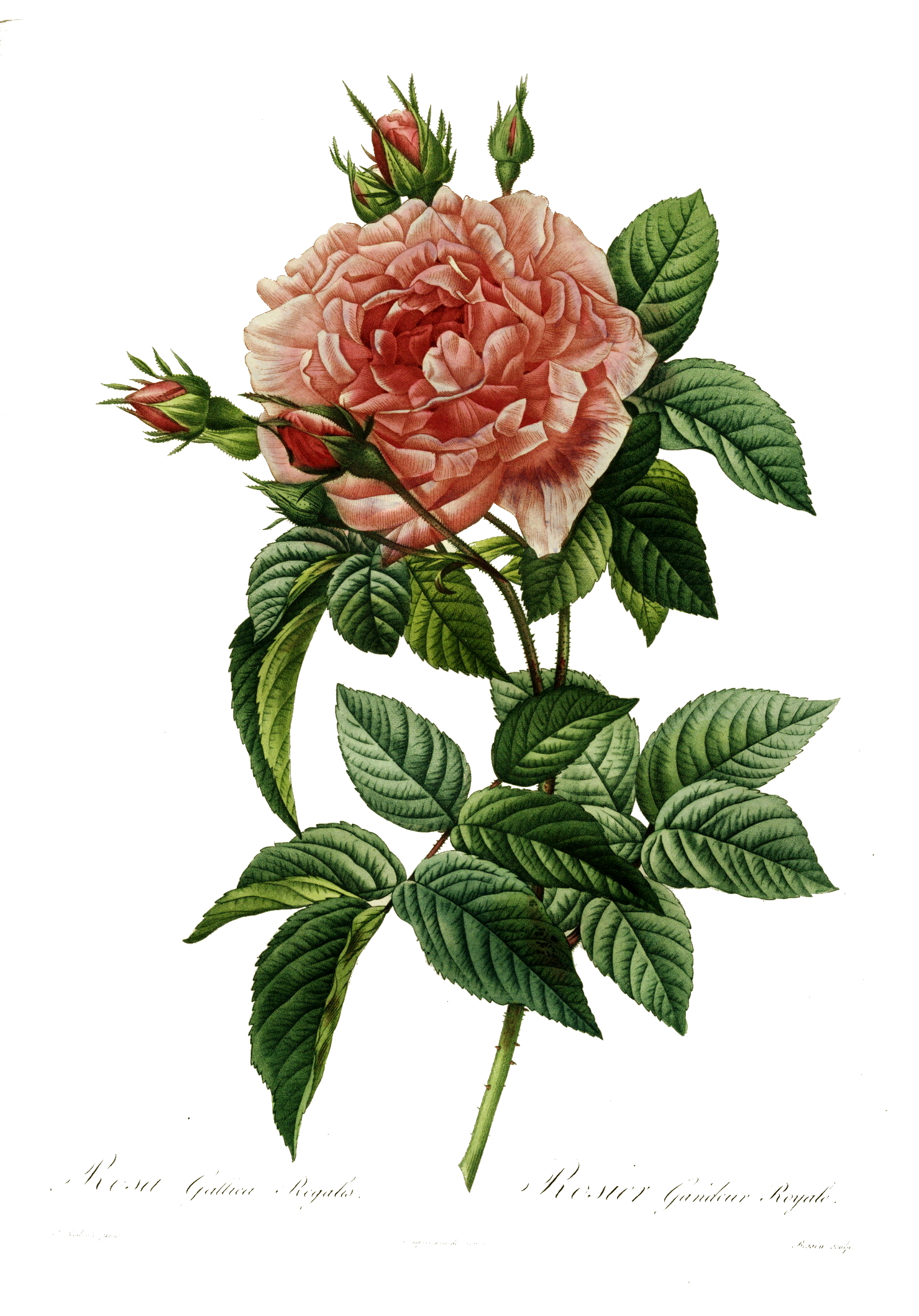 Rosa gallica regalis, a painted engraving of a rose by Pierre-Joseph Redouté (1759–1840).